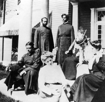 Swami Vivekananda in Ridgely Manner New York. In this photo Standing (left to right): Swami Turiyananda, Swami Abhedananda . Sitting (left to right): Swami Vivekananda, Alberta Sturges, Besse Leggett (hidden), Josephine MacLeod, friend of Alberta's [she is NOT Sister Nivedita].